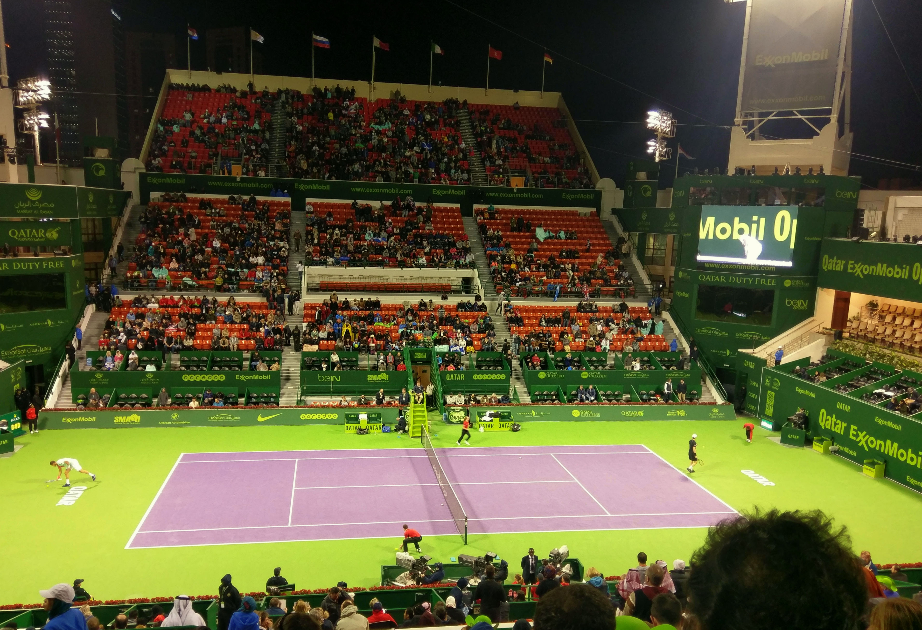 Qatar open 2017 Semifinal, A. Murray vs T. Berdych. Doha, Qatar